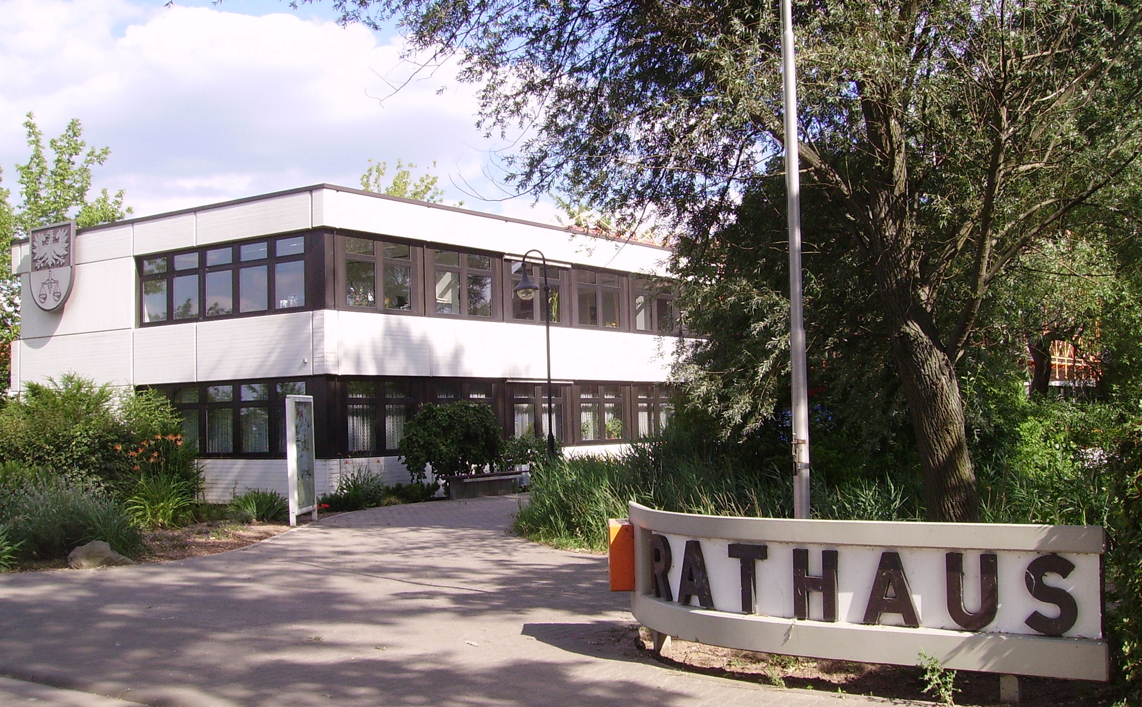 Böhl-Iggelheim, Germany